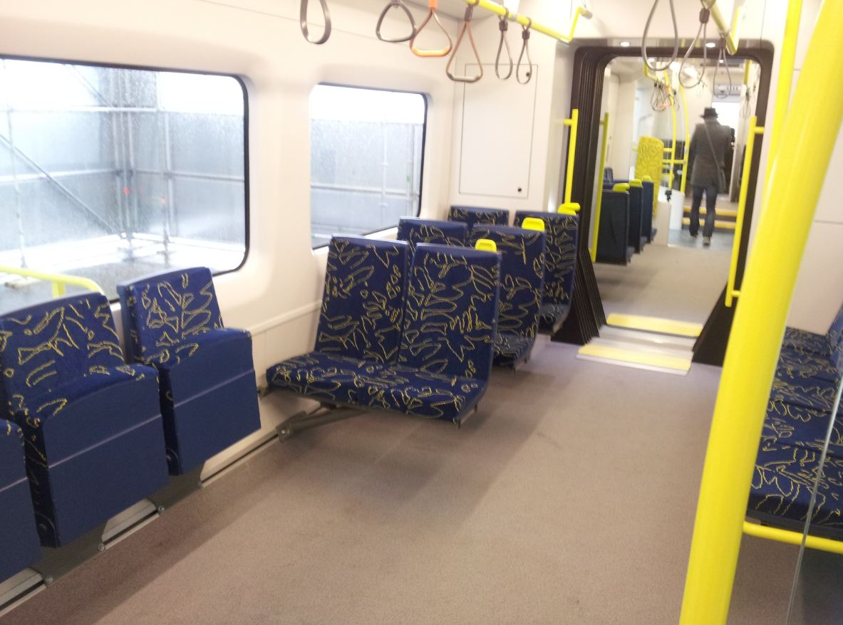 Auckland EMU mock-up interior, Auckland waterfront